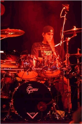 Self-made on LP'S Meteora Tour.